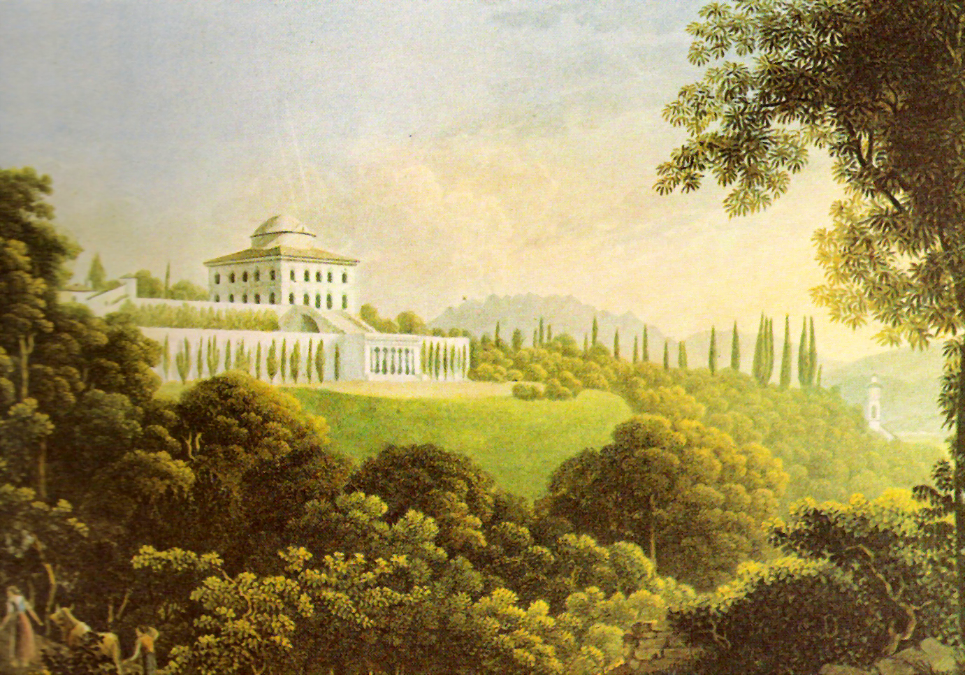 Neoclassic Villa Cagnola in Inverigo